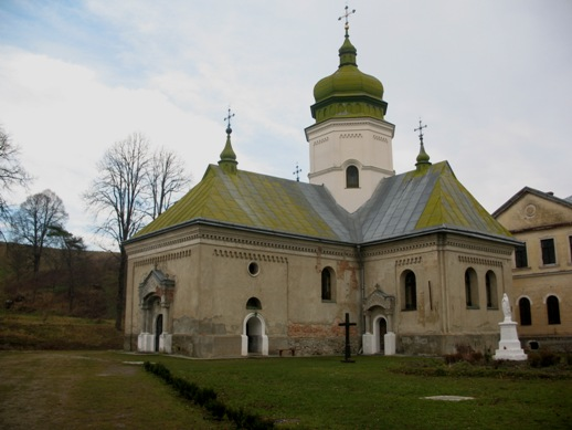 Lavriv Church of St. Onuphrius (Ukraine)